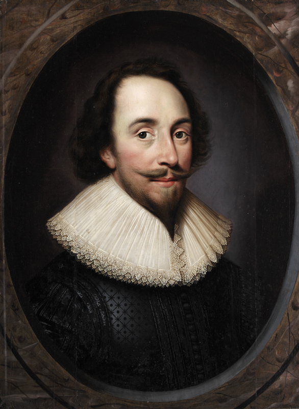 Portrait of Spencer Compton, 2nd Earl of Northampton (1601-1643)